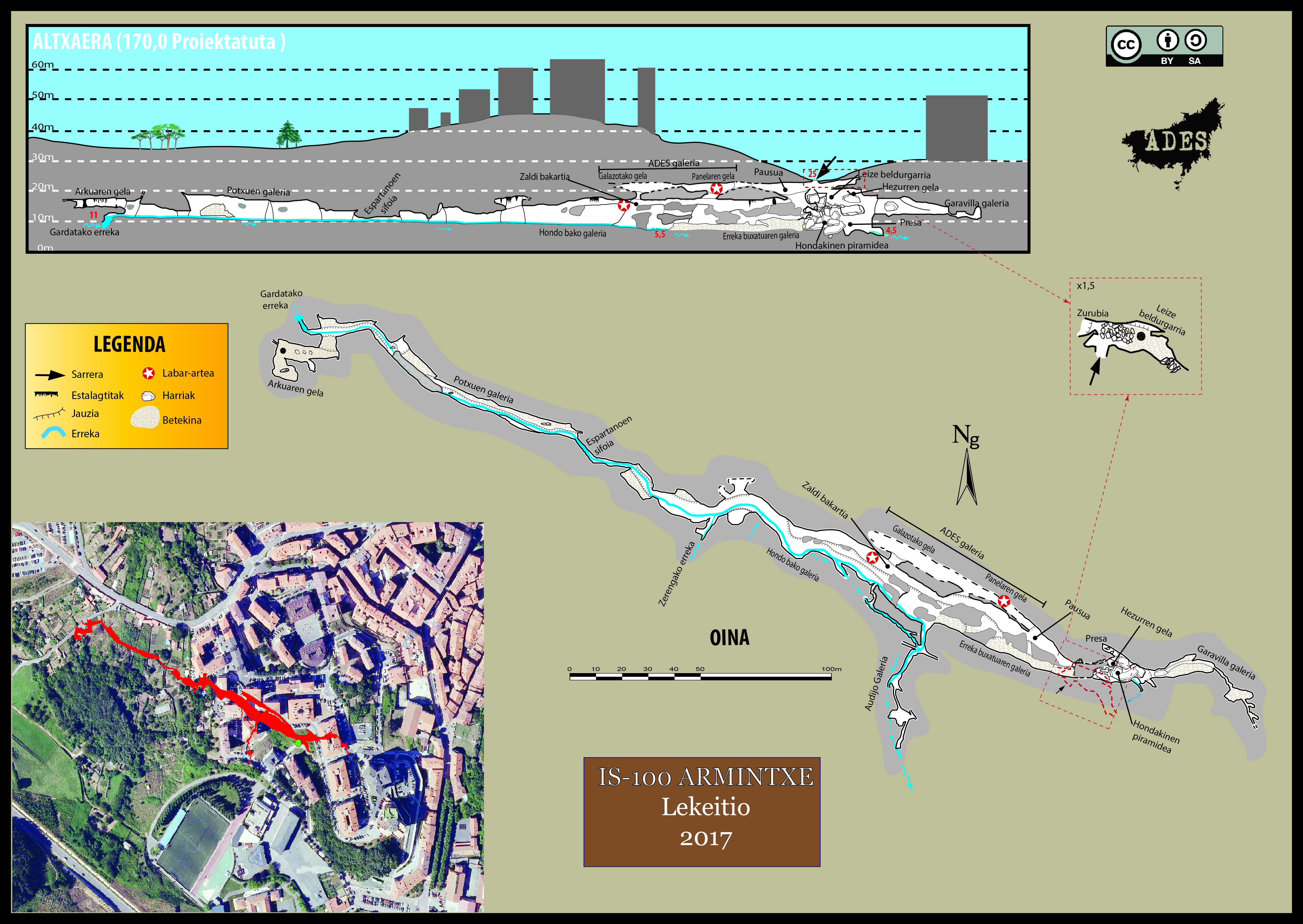 Provisional topography (exploration has not been finished yet).